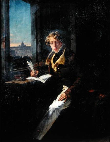 The portrait of French pianist and composer Victor Rifaut (1798-1838); Rouen, musée des Beaux-Arts